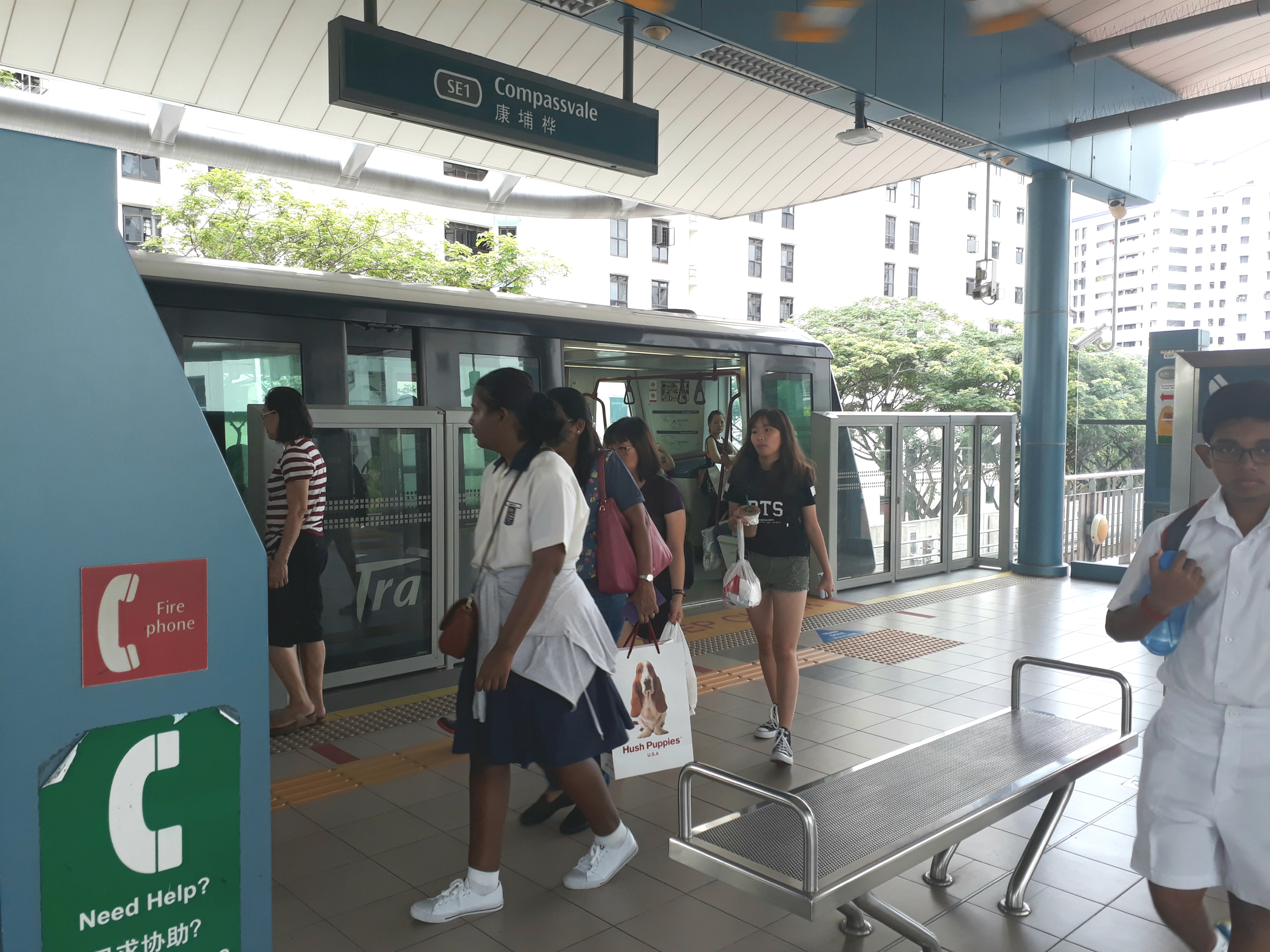 Platform 1 of Compassvale station